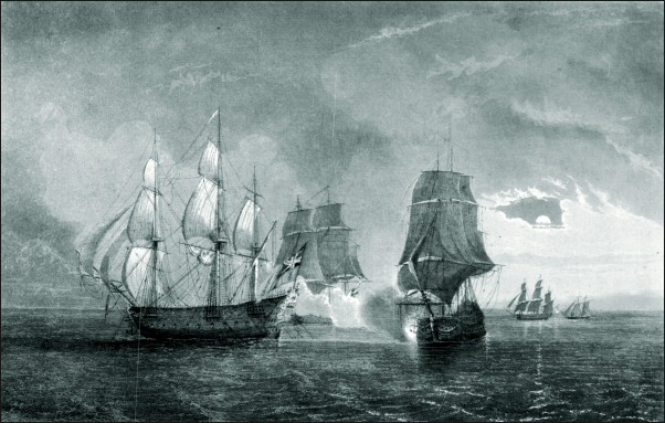 Battle of Negapatam July 6, 1782.